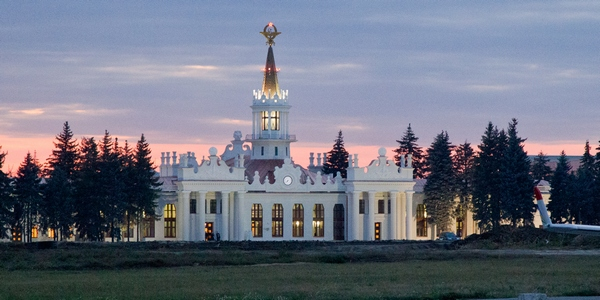 Historical building of Kharkiv Airport